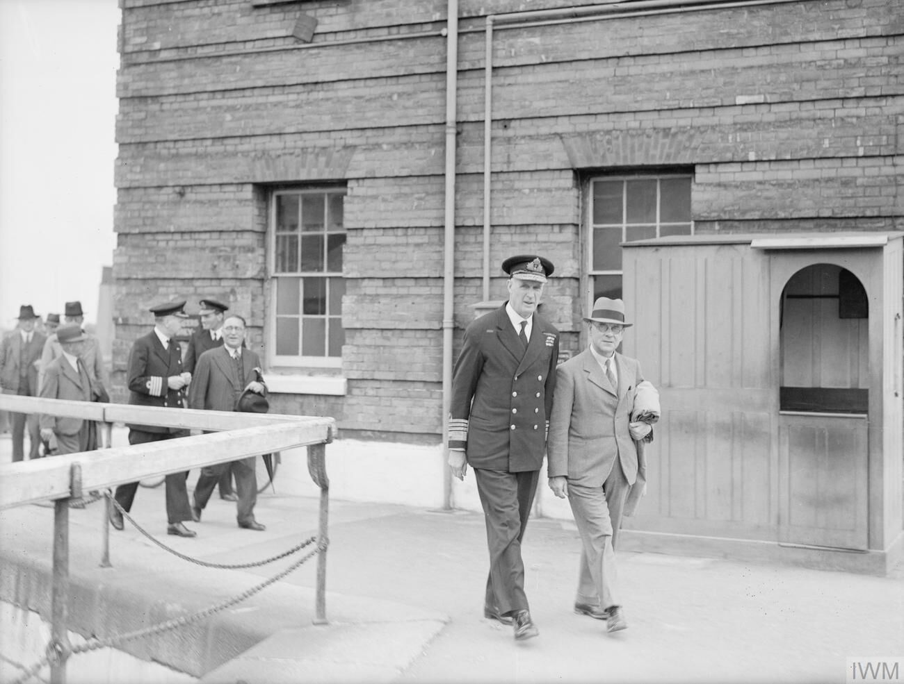 Mp's See a Landing Exercise. 23 July 1943, Portsmouth. a Party of 25 Mp's Visited Portsmouth and Witnessed Various Types of Landing Craft Beaching Companies of Troops, Under Cover of Smoke-screen. Commander in Chief, Portsmouth, Admiral Sir Charles Little, Gbe, Kcb, Hosted Some of the Mp's on Board His Flagship HMS Victory. Admiral Sir Charles Little, GBE, KCB, Commander in Chief, Portsmouth with George A Isaacs, MP for Southwark, and other MP's behind, on the way to board motor launches to witness the landing craft exercise.Depicted people: Charles Little and George Isaacs